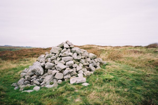 Faulds Brow. The northernmost hill of the Lake District National Park